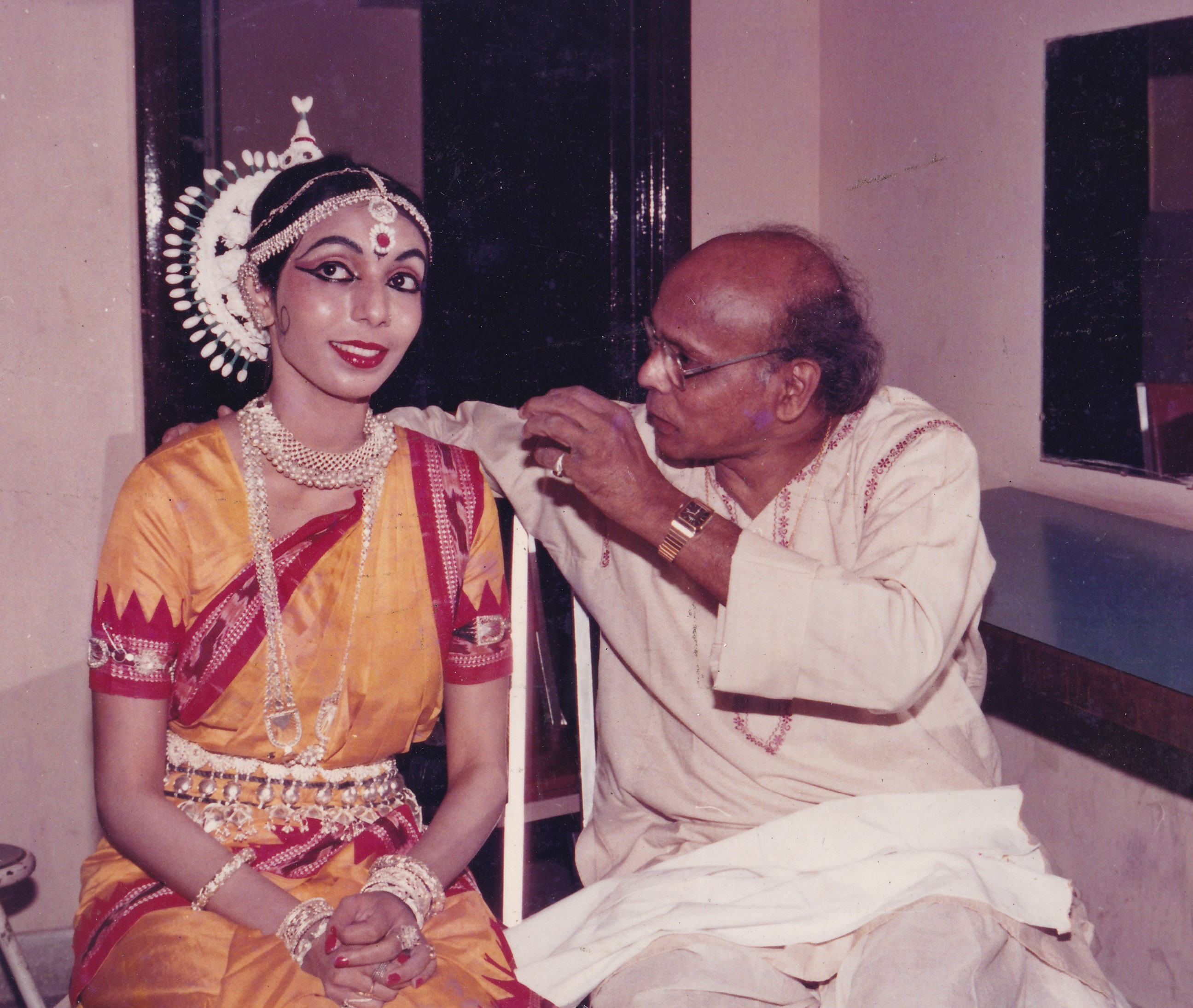 Odissi dancer Sharmila with Guruji